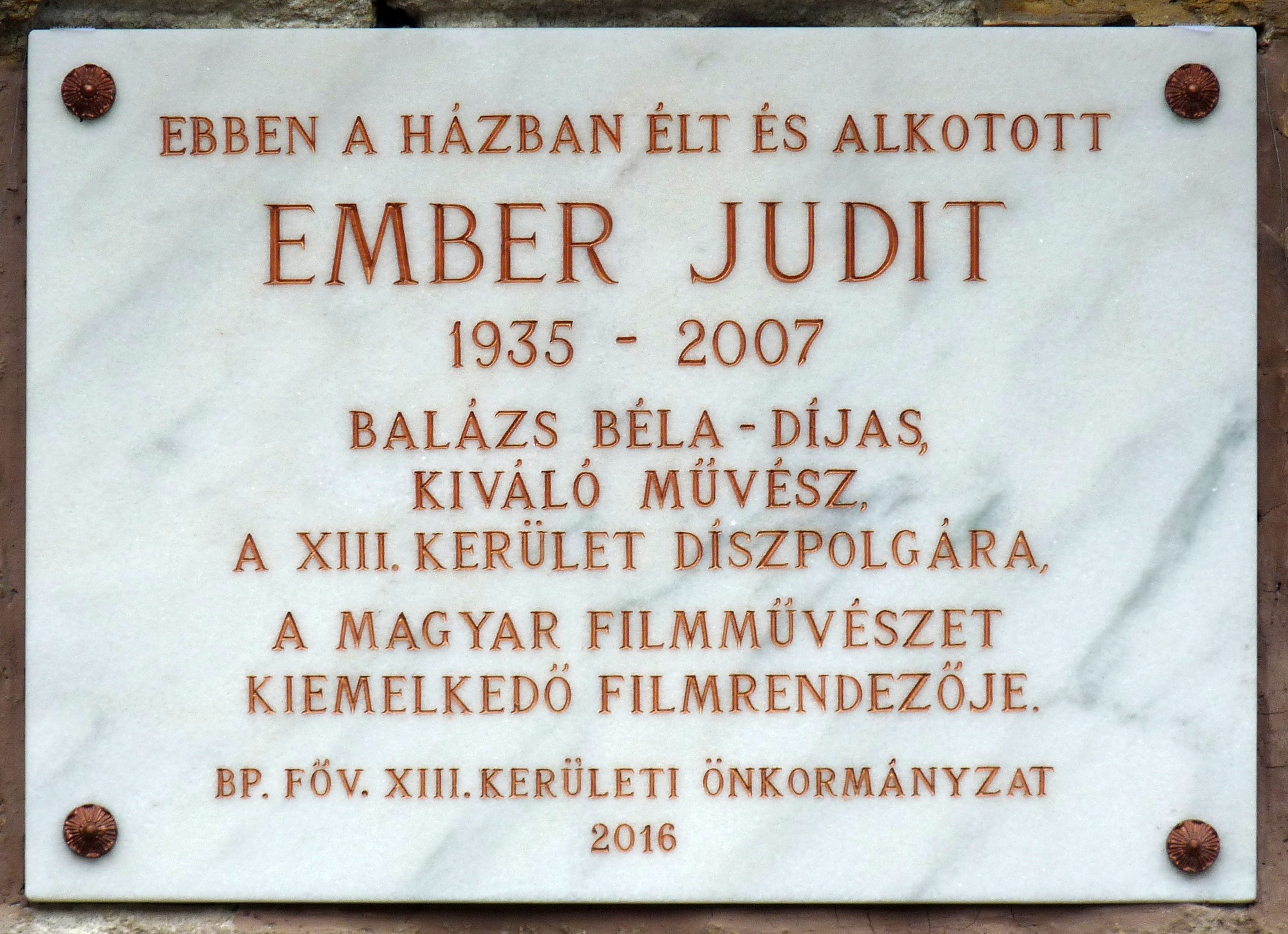 Commemorative plaque to Mrs. Judit Ember (1935–2007 Béla Balázs-award winner Hungarian documentary filmmaker. It has been affixed on the wall of his former home on May 11, 2016. (Budapest, District XIII, Karikás Frigyes Street Nr 2)